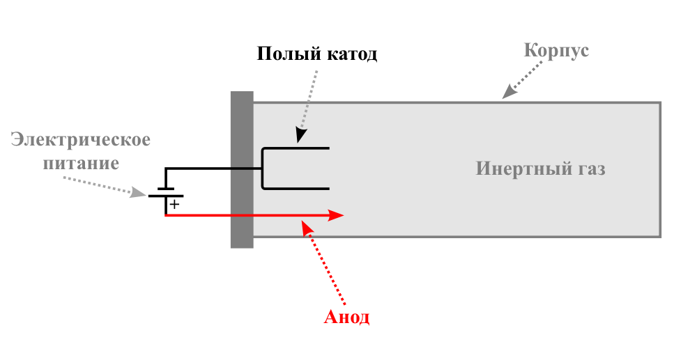 Basic diagram of a hollow cathode lamp.